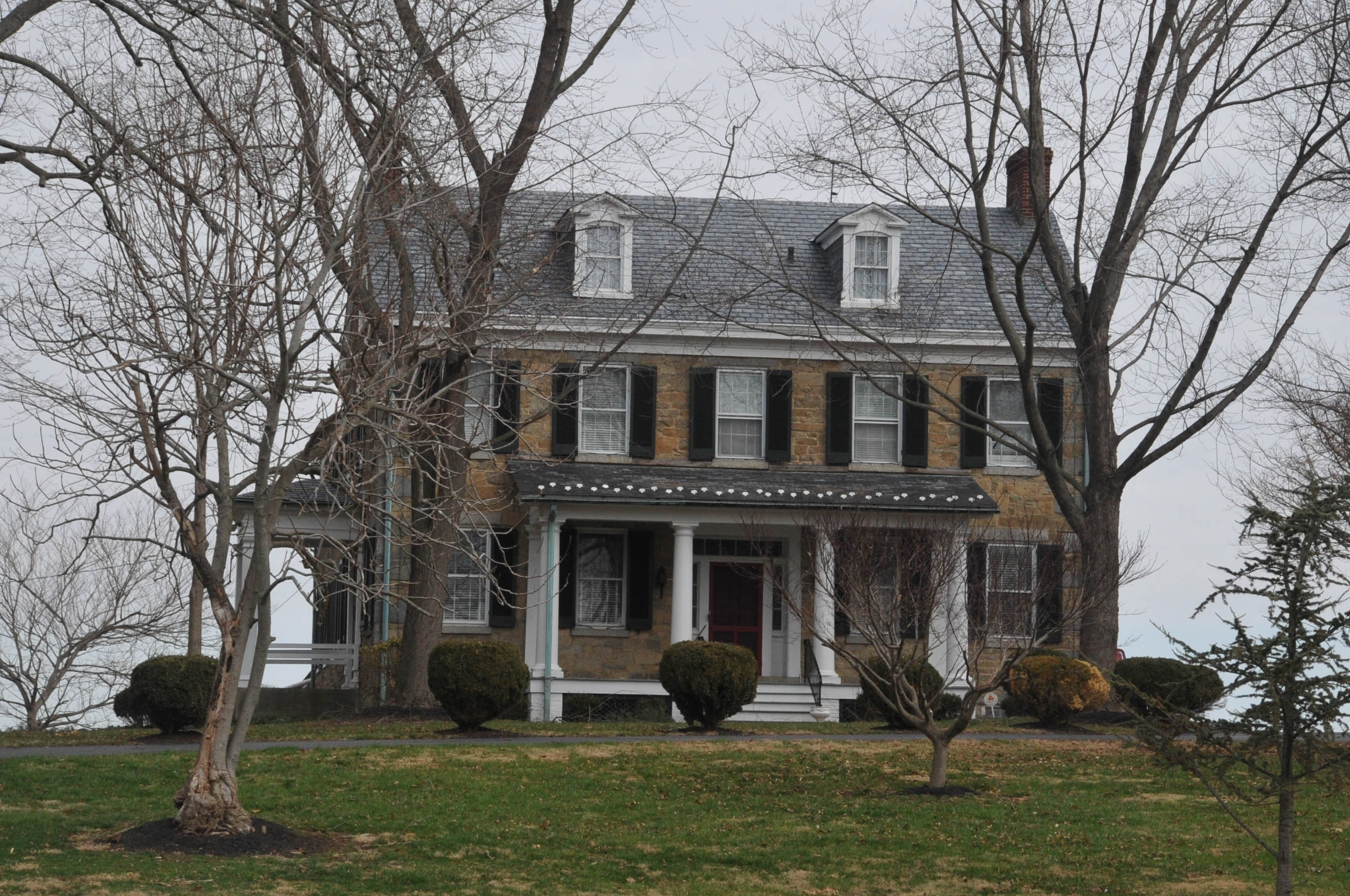 BENJAMIN SILVER HOUSE; 1856; THE SILVER FAMILY WERE RESPONSIBLE FOR HAVING BUILT A NUMBER OF STONE HOUSES AND ASSOCIATED OUTBUILDINGS IN THE DARLINGTON AREA